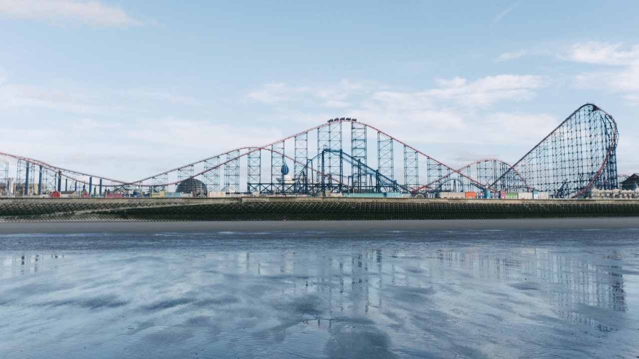 A shot of the Big One from South Beach by photographer Josh Ormerod